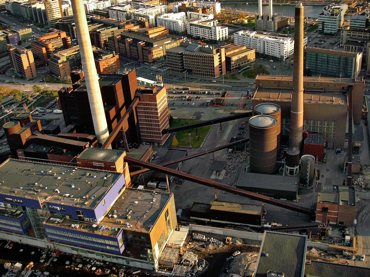 Salmisaari cogeneration coal power plant in Helsinki from air